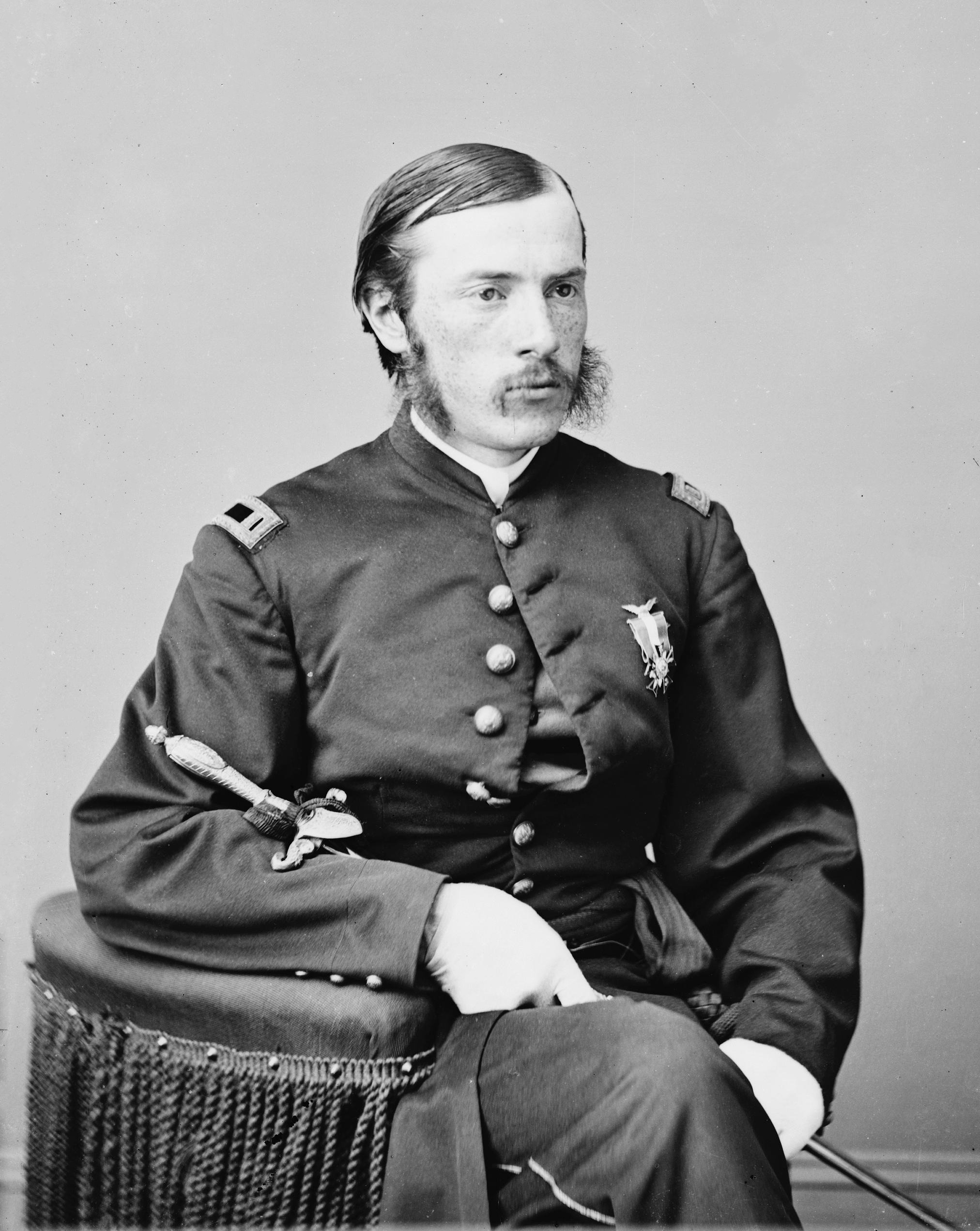 Charles Leale. Library of Congress description: "Dr. Charles A. Leale (in U.S. Army uniform) attended Lincoln at death."